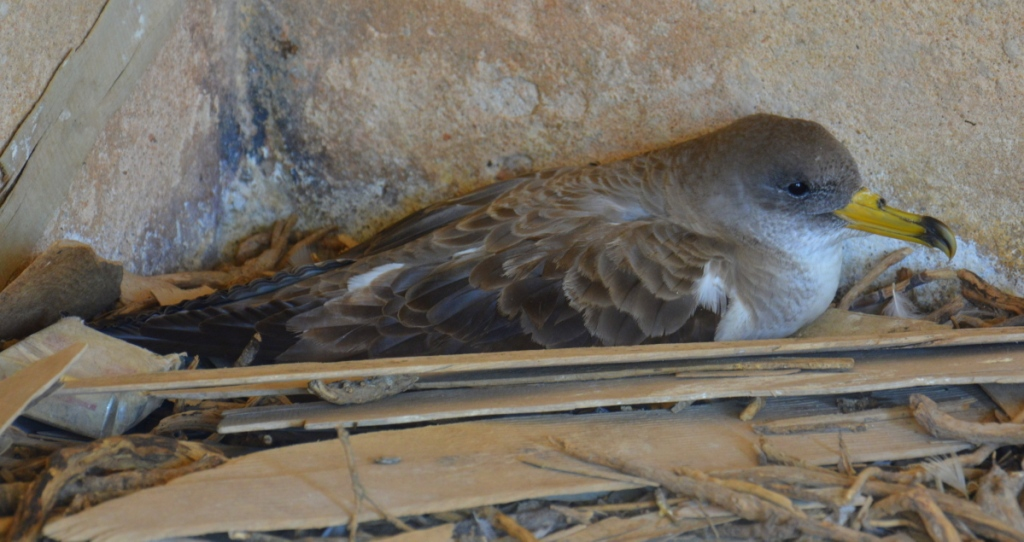 View on Zembra.